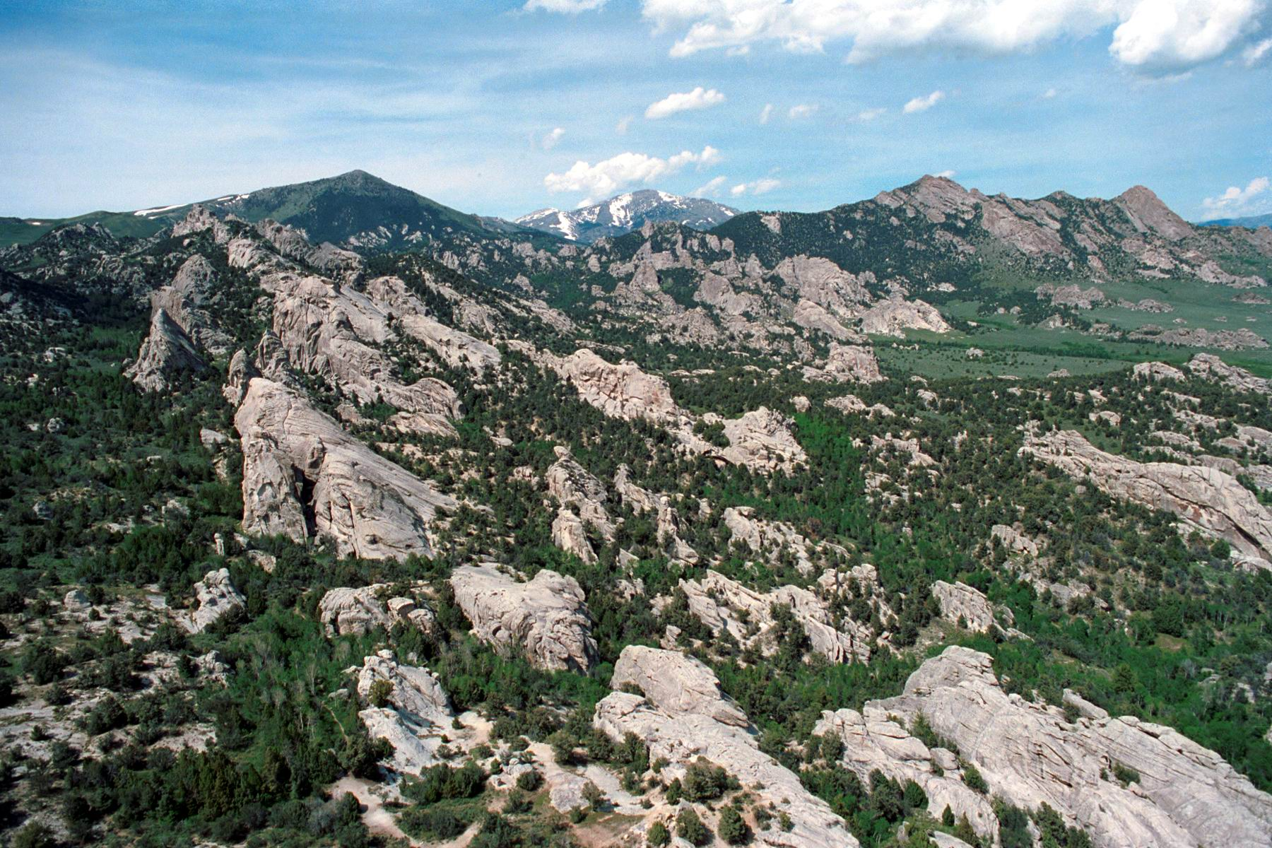 City of Rocks National Reserve, Idaho with Graham Peak at left and Cache Peak at center in the Albion Mountains.